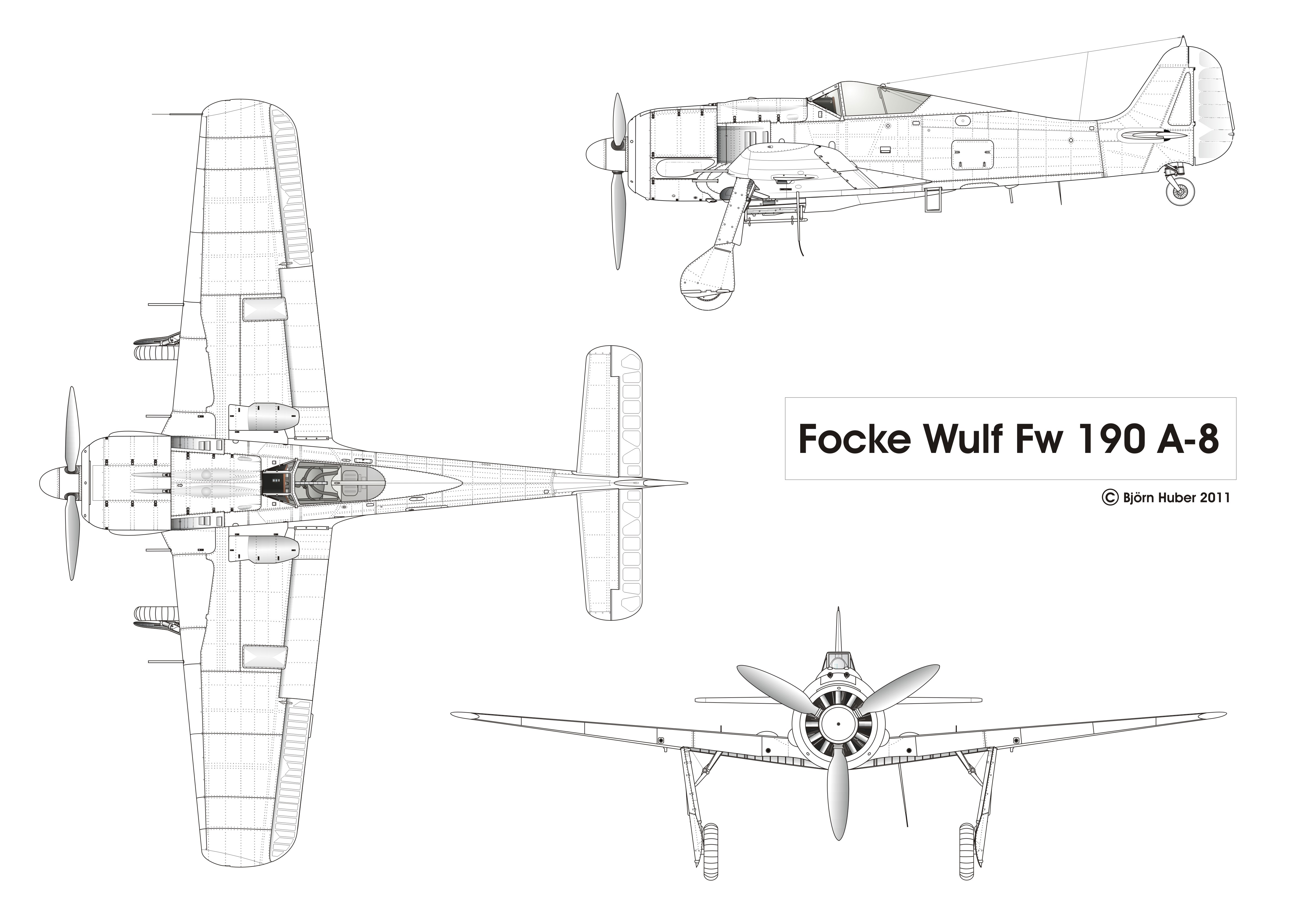 Three side view of Focke Wulf Fw 190 A-8